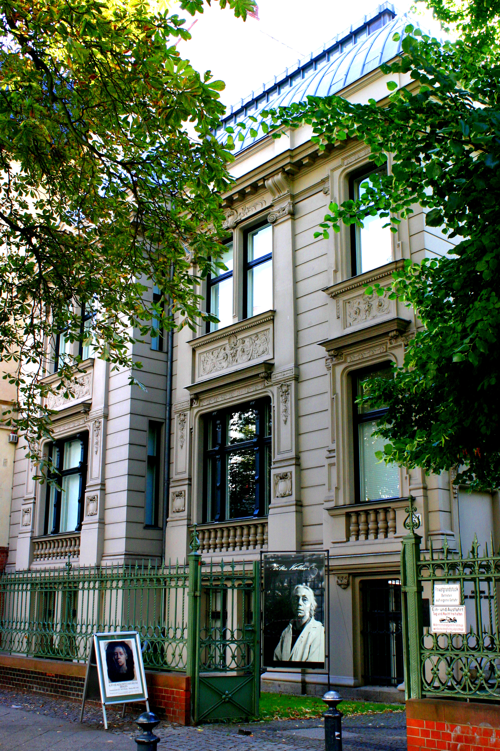 Käthe-Kollwitz-Museum, Fasanenstraße, Berlin